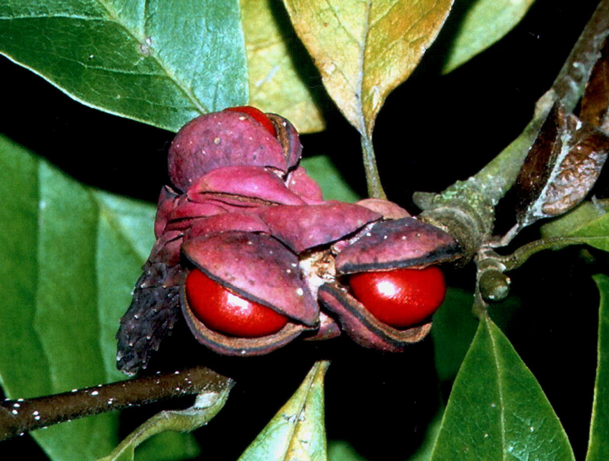 Fruit aggregate of a Saucer Magnolia (Magnolia × soulangeana)